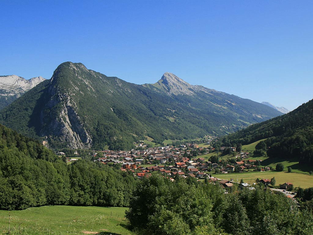 Thônes Valley - French Alps - Haute-Savoie.